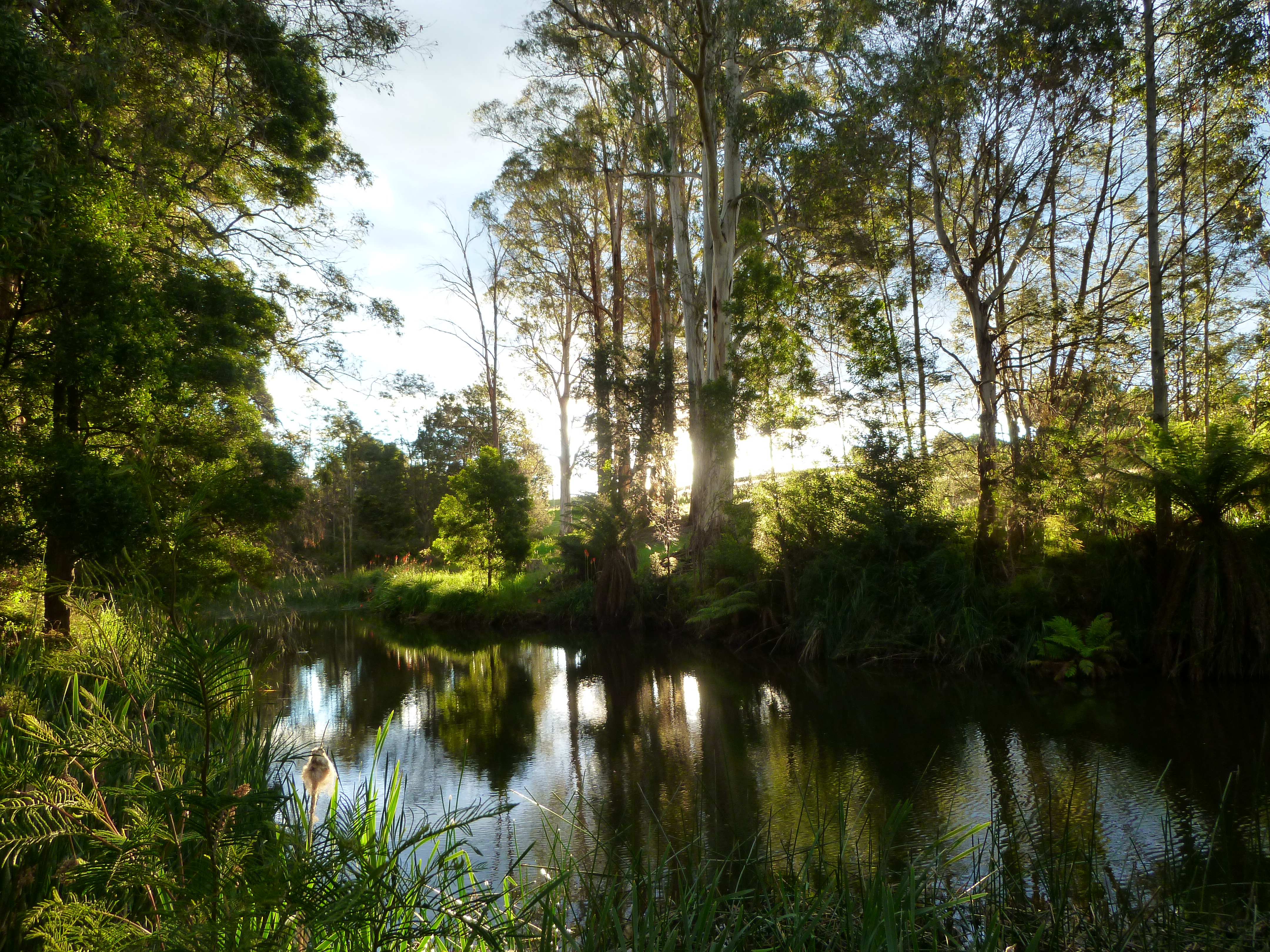 View of the Tuckers Creek in Scottsdale camping site, Tasmania. You can find platypus in there!